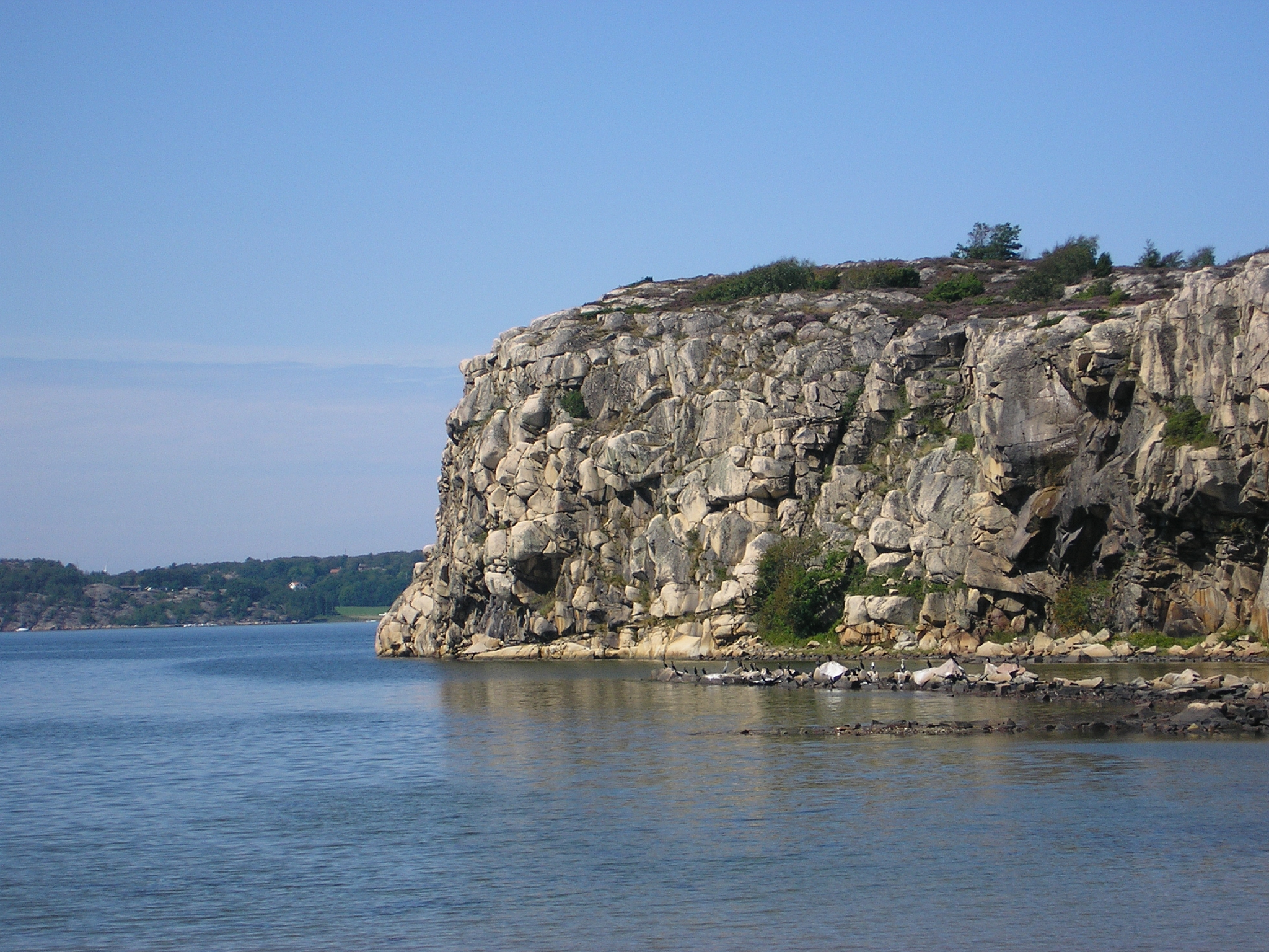 Urhultsberget and Åbyfjorden, seen from Släviksvägen.